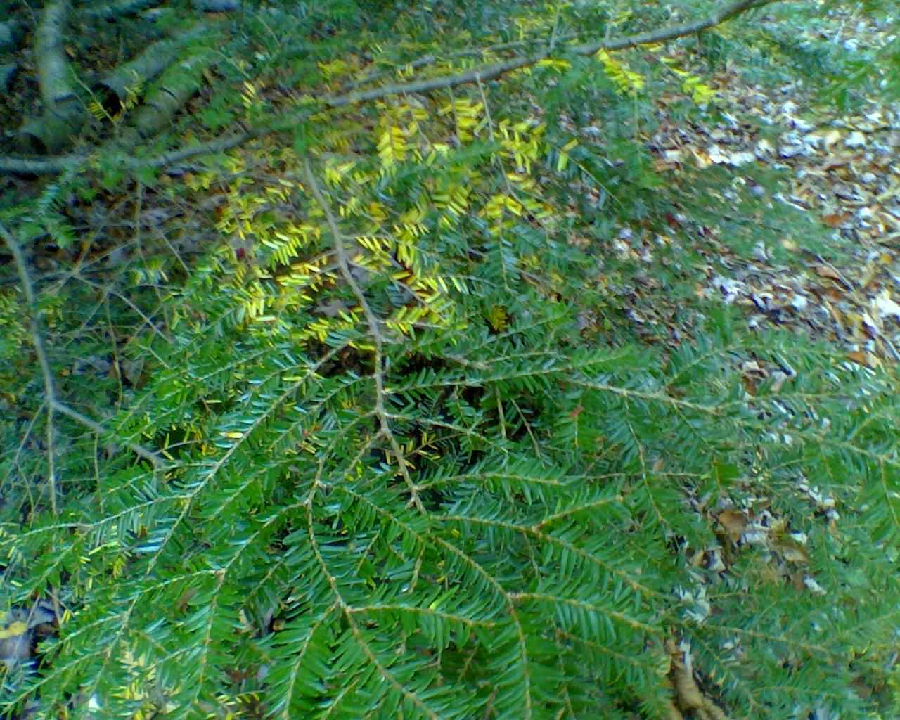 Hemlock boughs shedding older foliage in the autumn. Upstate New York.